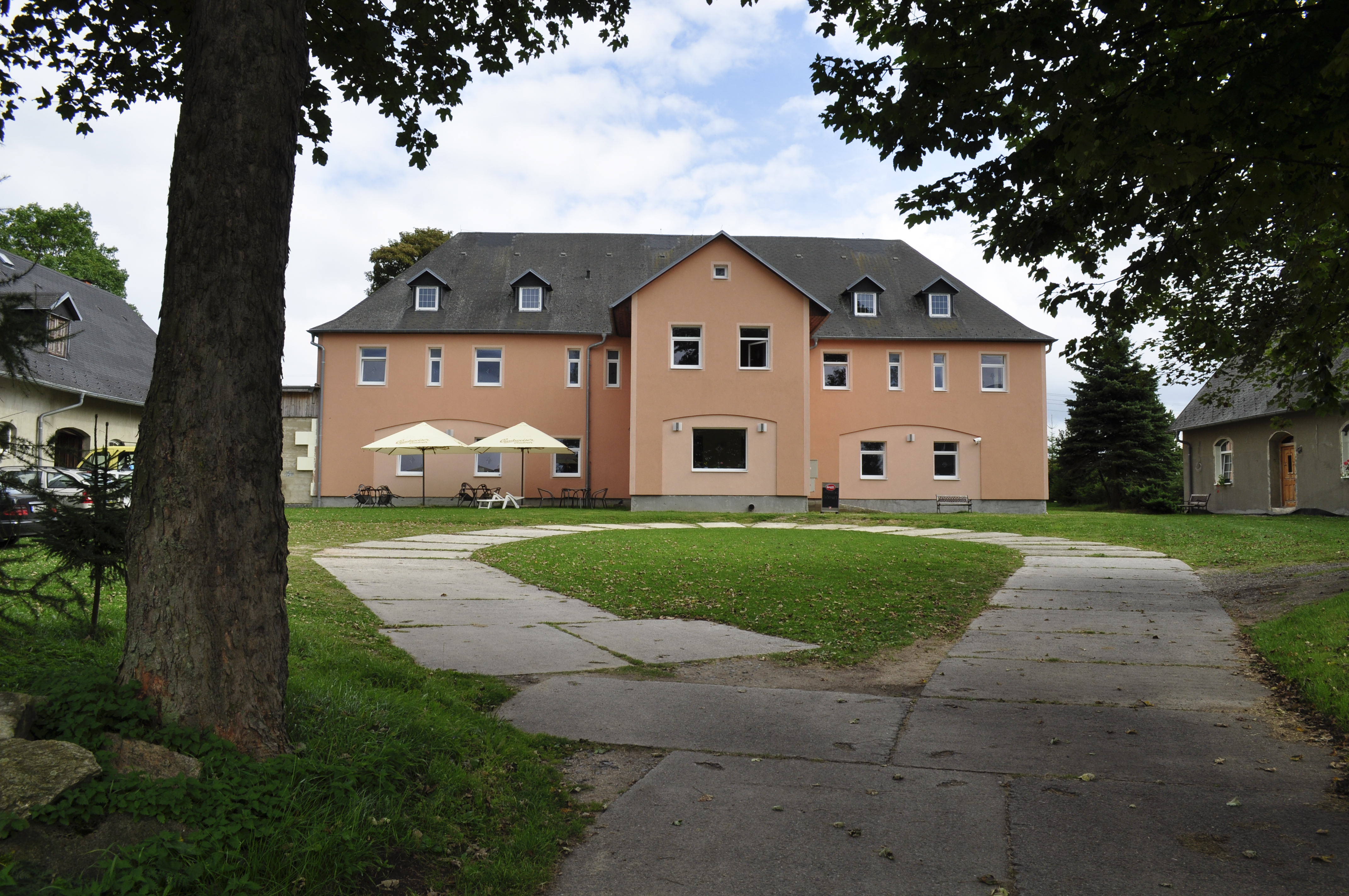 Kalek - chateau